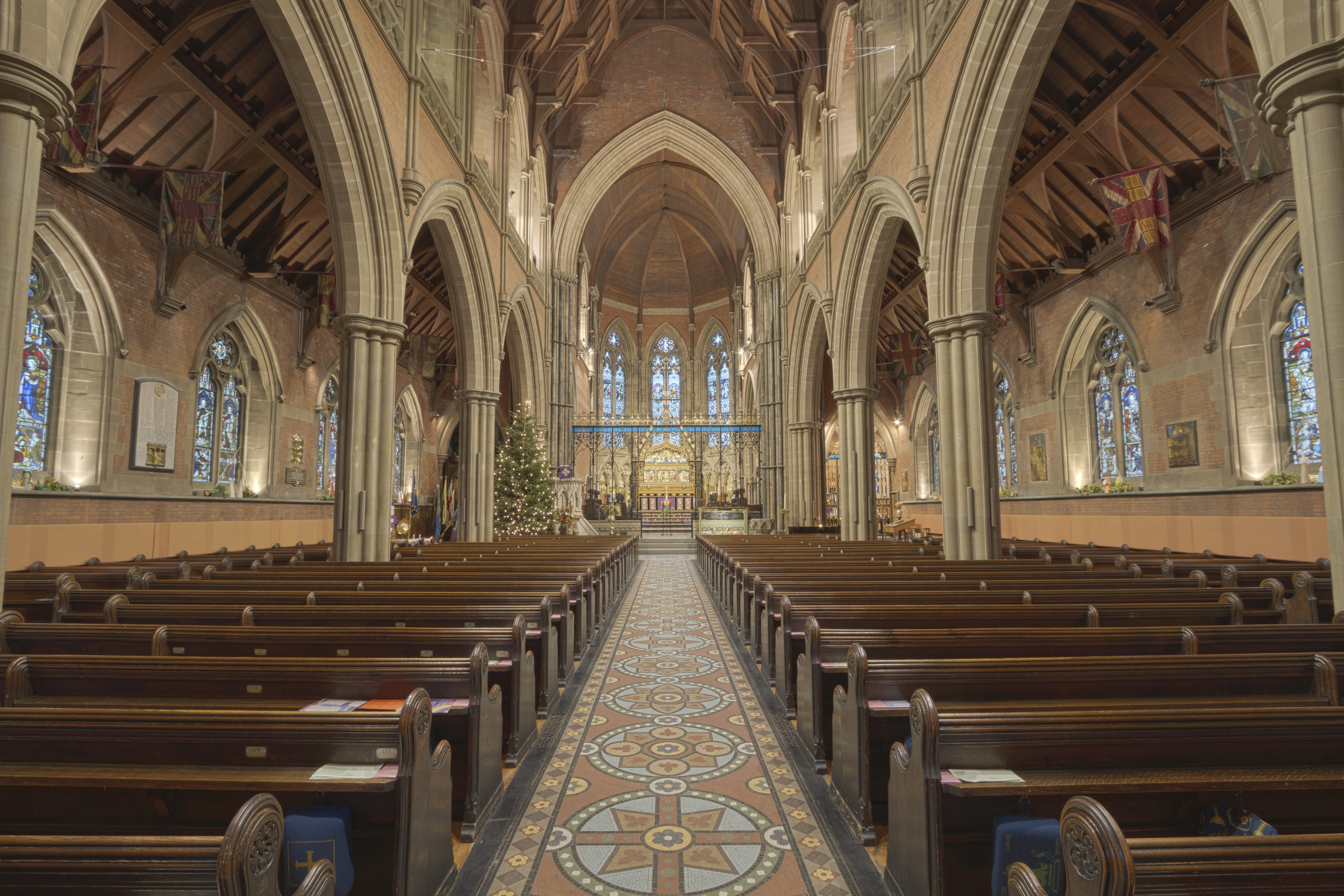 Here is an HDR photograph taken of Bury Parish Church, Saint Mary the Virgin, in Christmas. Located in Bury, Greater Manchester, England, UK. English Heritage Listed Building Grade II, List Entry number 1067236.